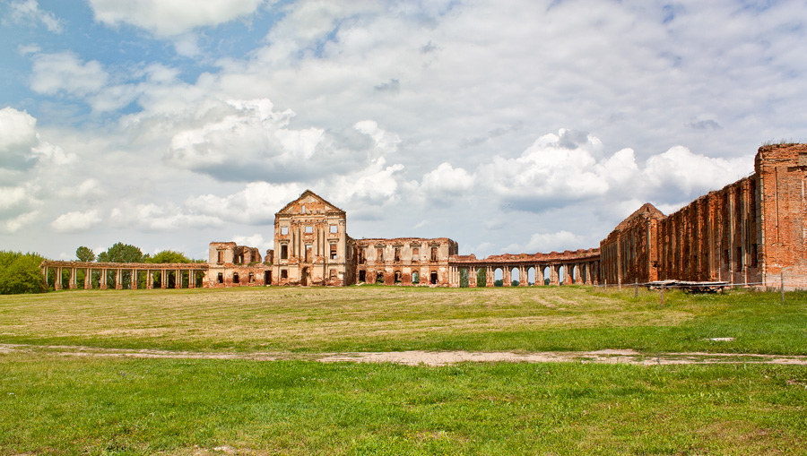 Sapieha Palace in Ružany, inner court This is a photo of Belarusian heritage monument. Reference number: 112Г000640 ( WLM)